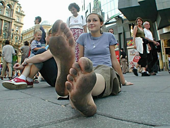 Austria, Vienna, Stephansplatz